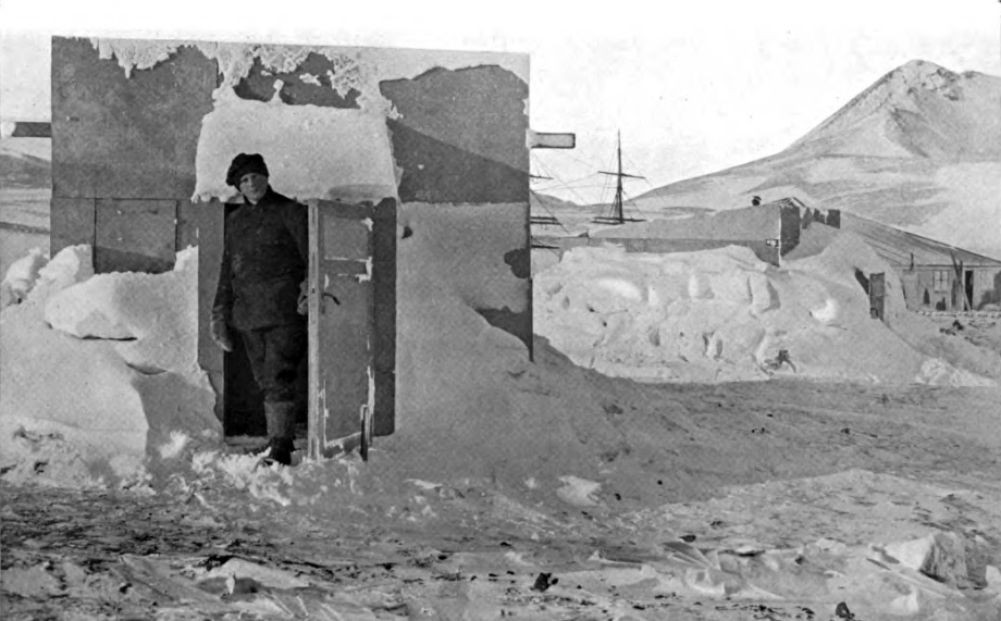 Louis Bernacchi (1876-1942) leaving an observation hut at Hut Point, Ross Island, Antarctica, on the Discovery Expedition (1901-1904)